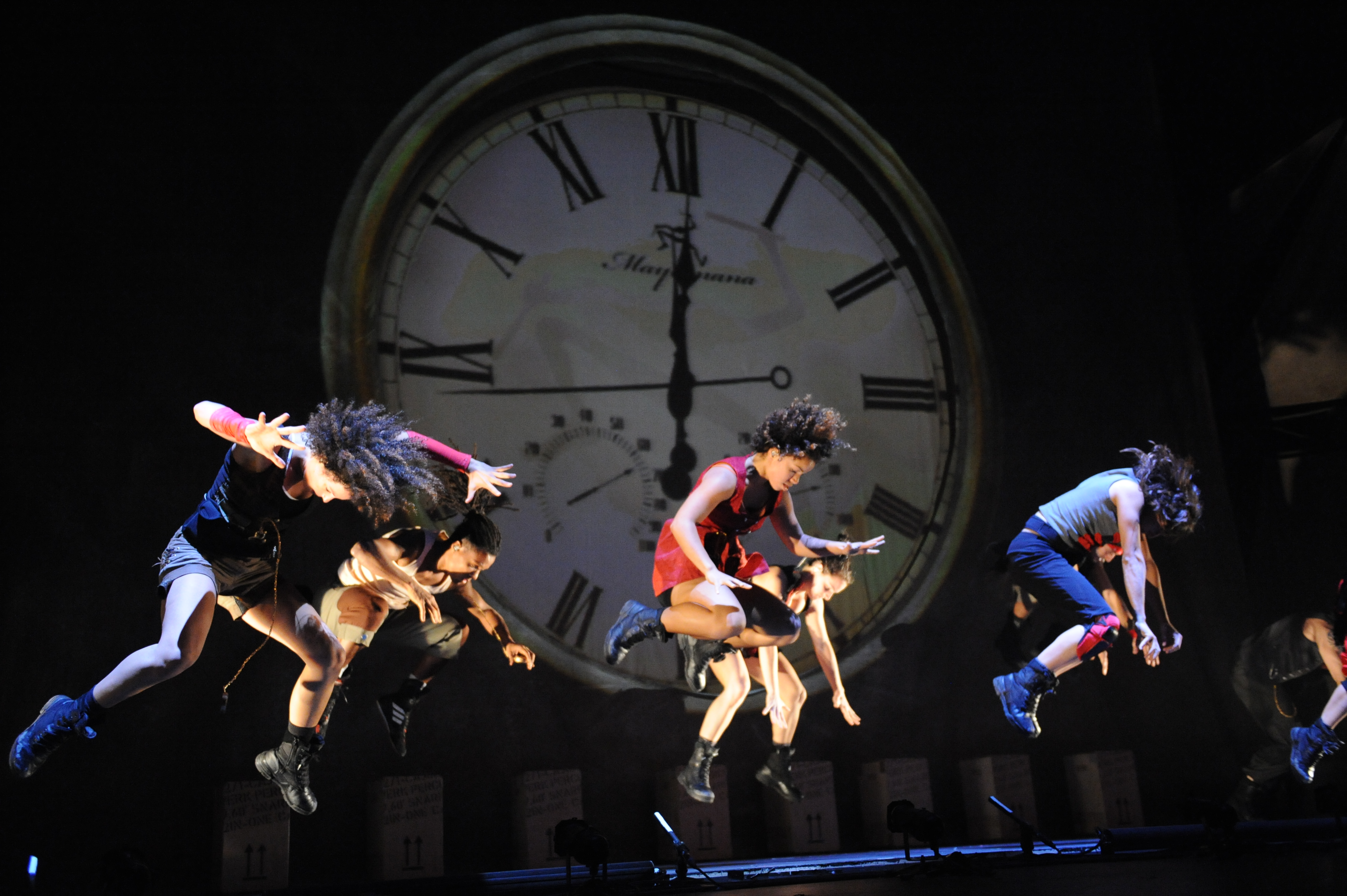 From the official Mayumana photos gallery